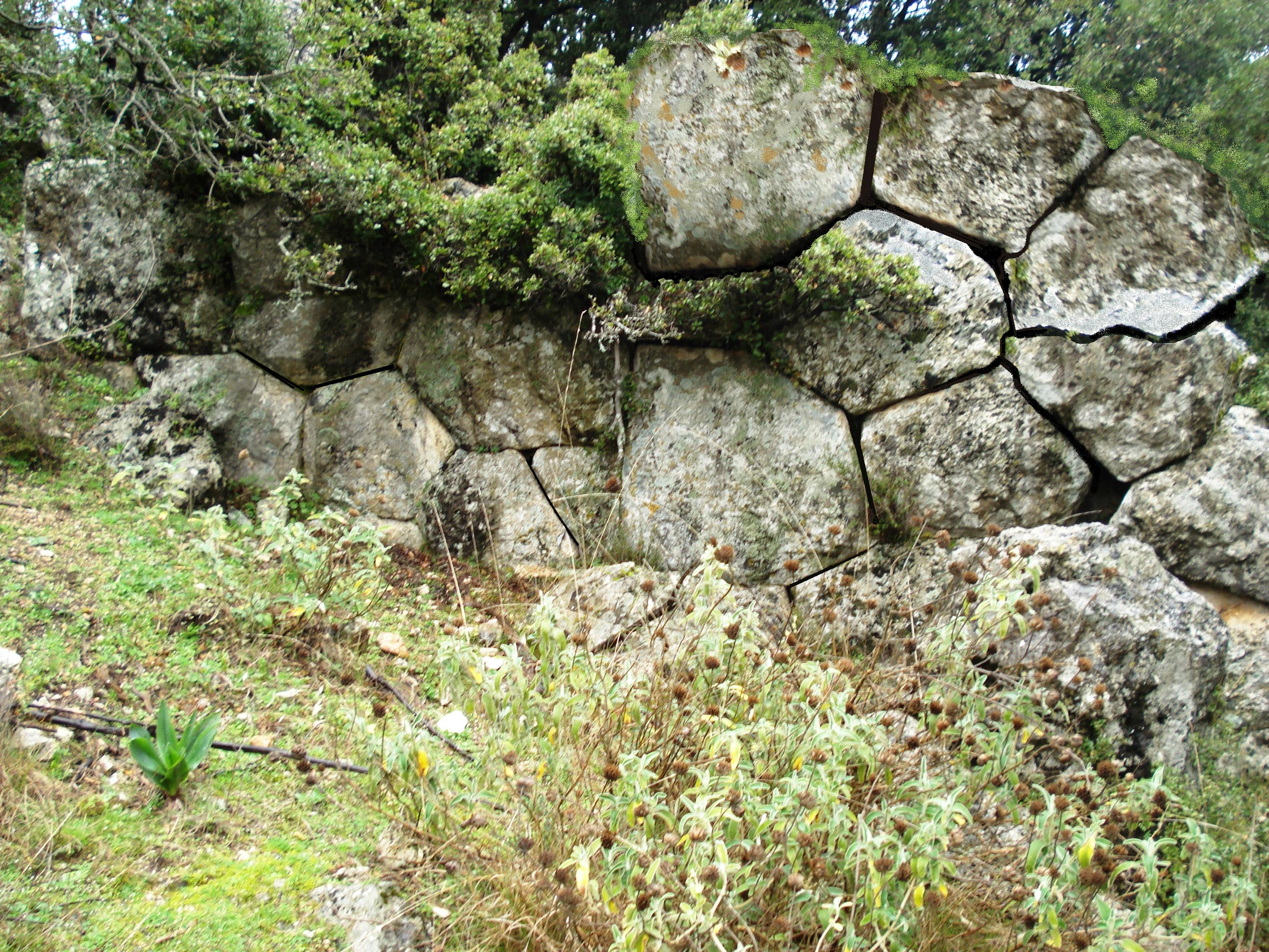 Ancient Elatreia polygonal walls